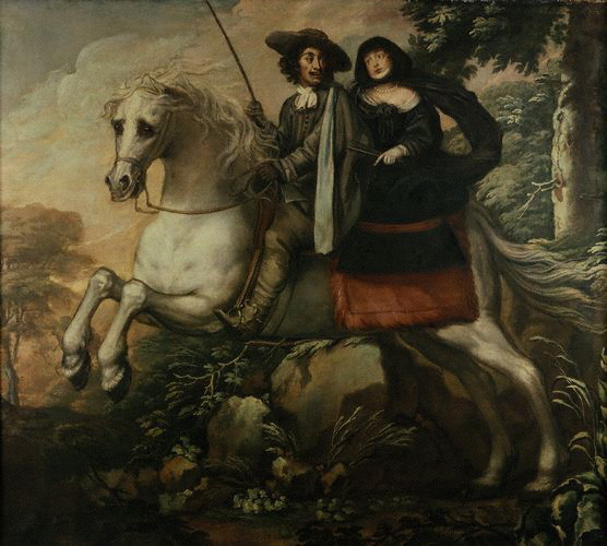 Charles II of England (1630-1685) and Jane Lane, Lady Fisher (c1626-1689) on the ride to Bristol.